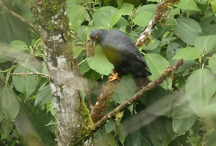 White-rumped Hawk (Parabuteo leucorrhous) at Tandayapa Bird Lodge, NW Ecuador.